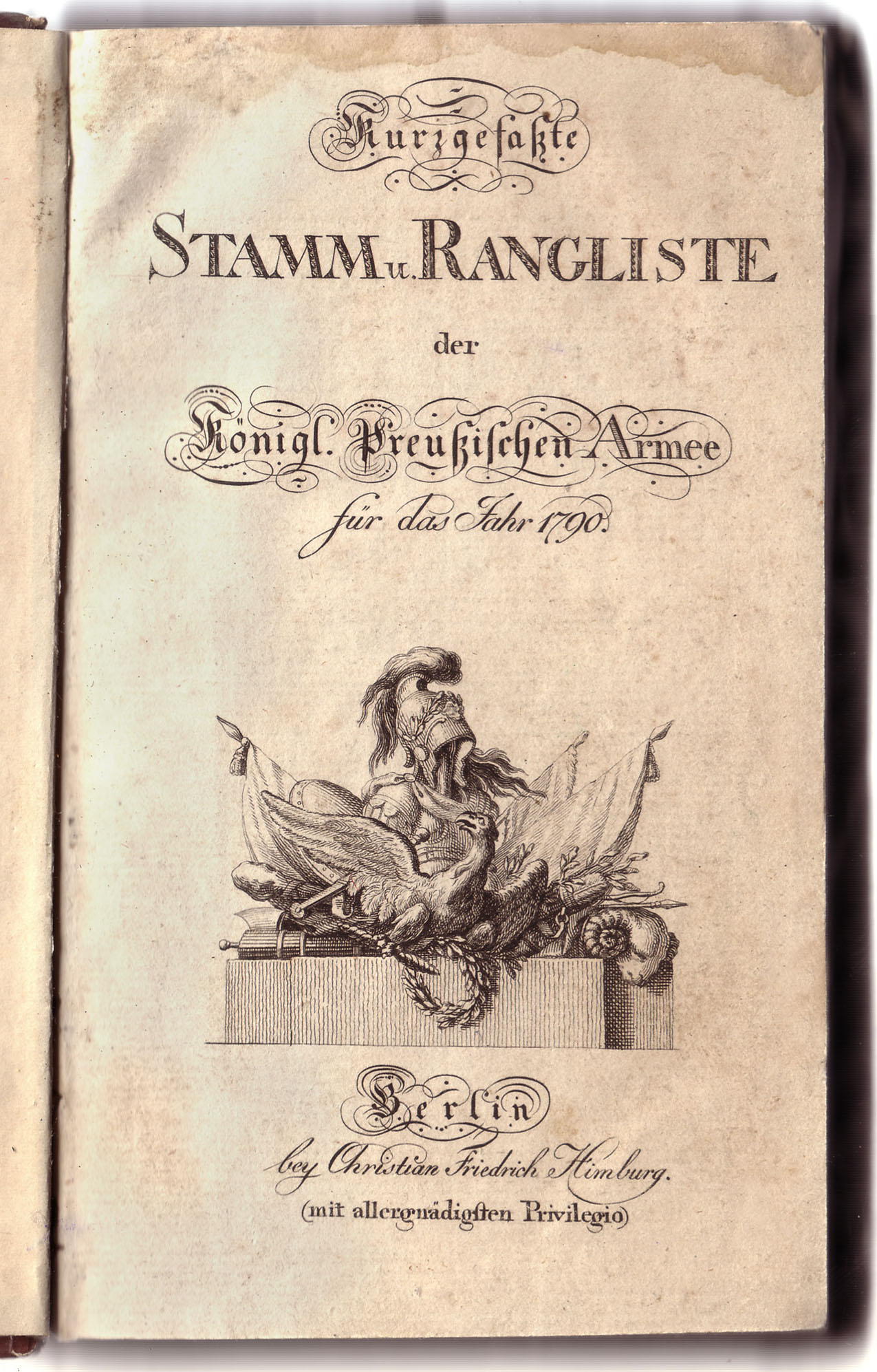 title page of thr prussian officiers ranklist 1790.